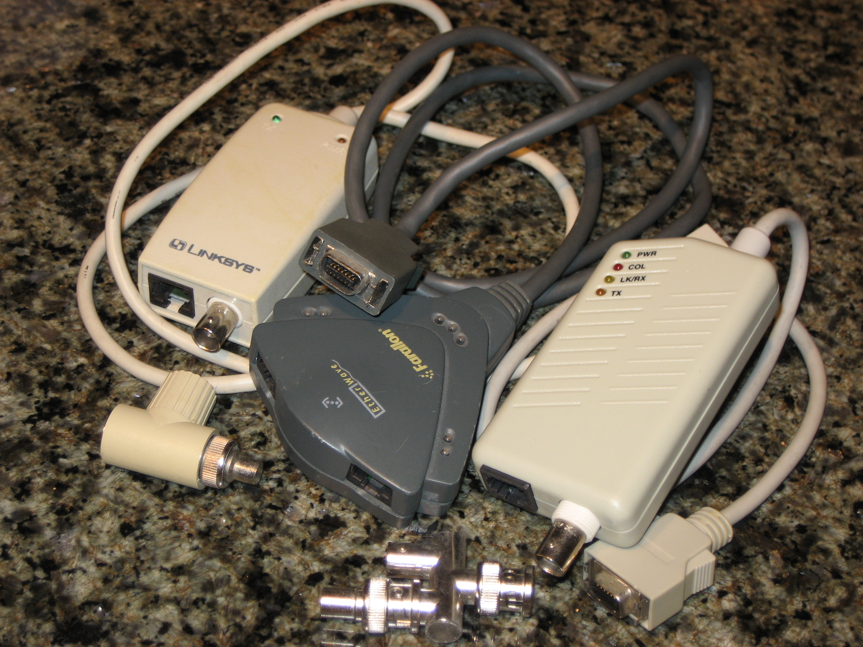 3 makes of AUI transceivers using the Apple style connector, AAUI Left to right, the Linksys MACT2T combo (10BASE-2 and 10BASE-T), Farallon Etherwave (basically a 3 port 10BASE-T hub), and a generic type combo AAUI, FCC ID: LL8-LEENET-C (Taiwan). Also in the picture is 2 styles of 10BASE-2 T-Connector and terminators. If you are interested in more information or the image, please contact me!